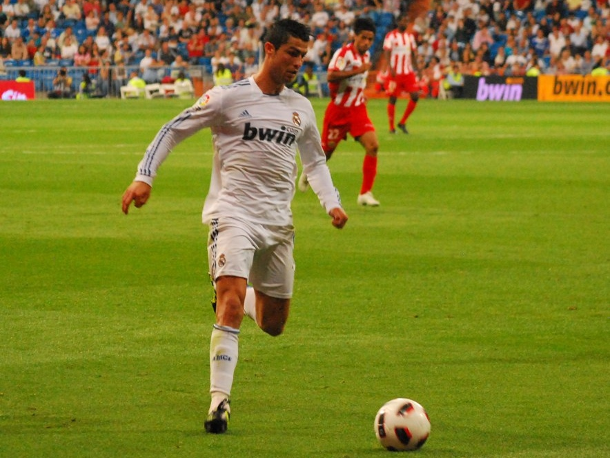 Cristiano Ronaldo during Real Madrid–Almería (8-1).